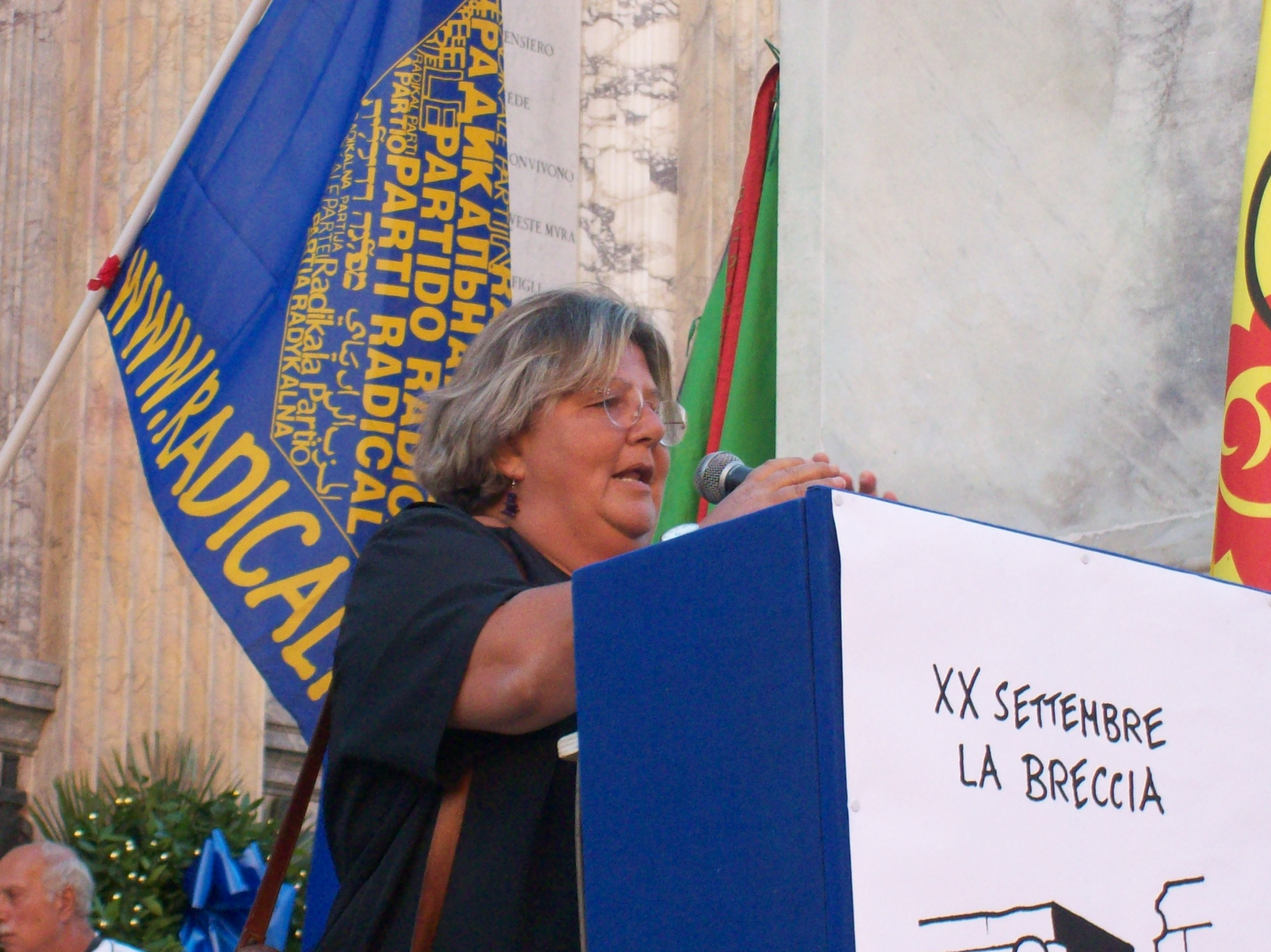 Maria Bonafede, former speaker of the Waldensian Church of Italy, speaking in Rome during the Commemoration of the 142th Anniversary of the Capture of Rome